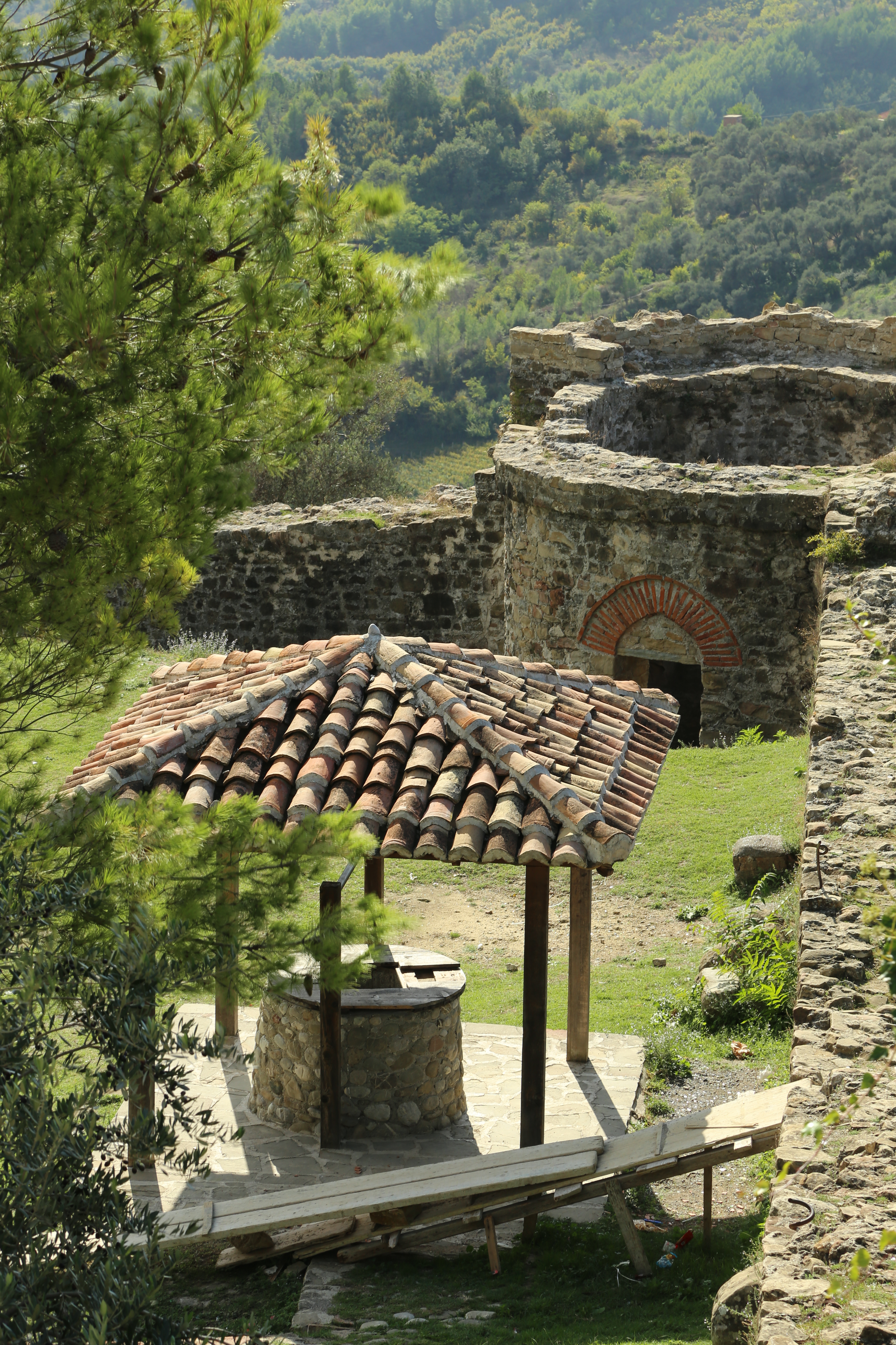 Prezë Castle, Albania